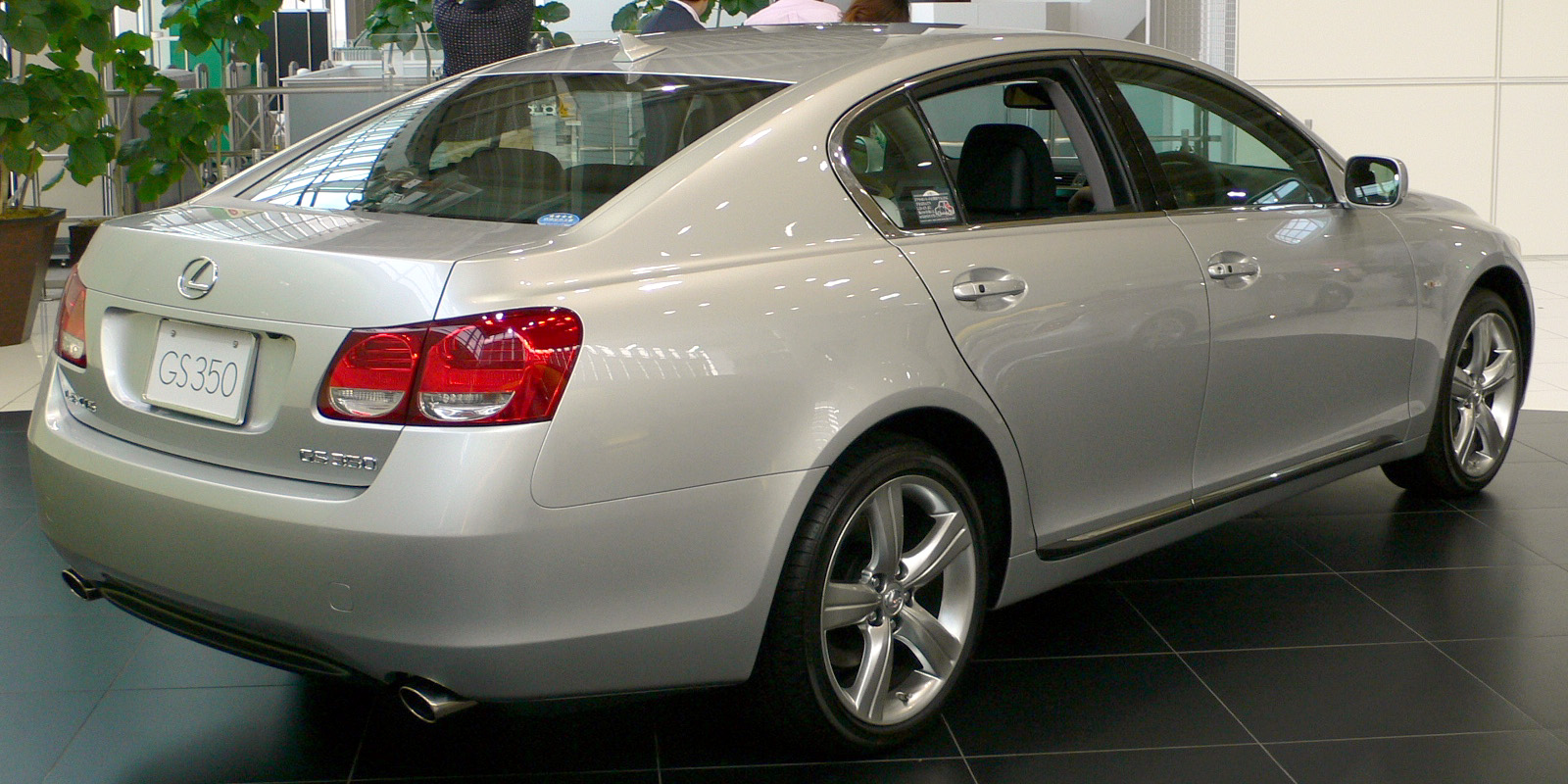 Lexus_GS350(2005 - )photographed in MEGAWEB